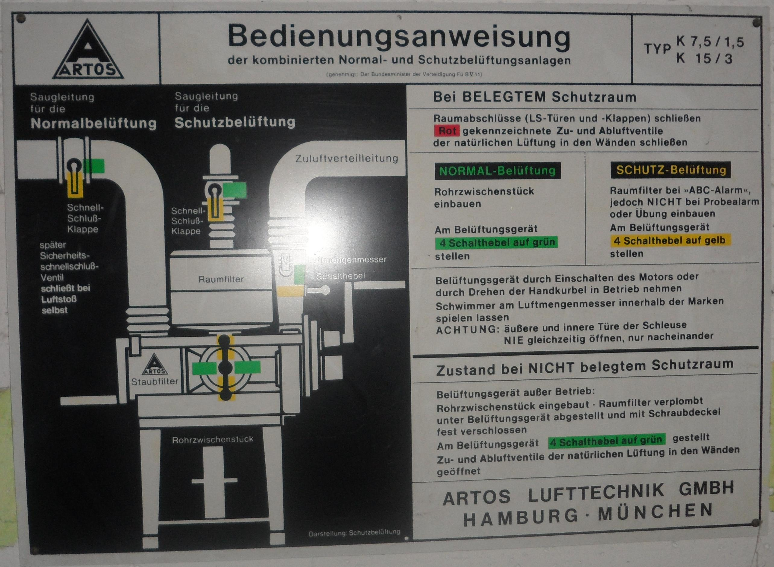 Manual and diagrammatic plan of a climate control in a air-raid shelter in the cellar of a military building (German)